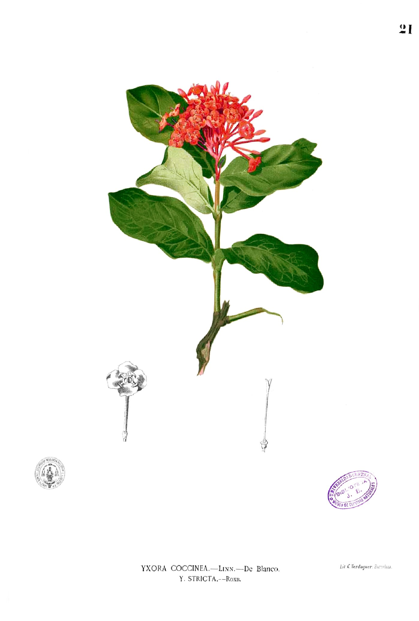 Plate from book